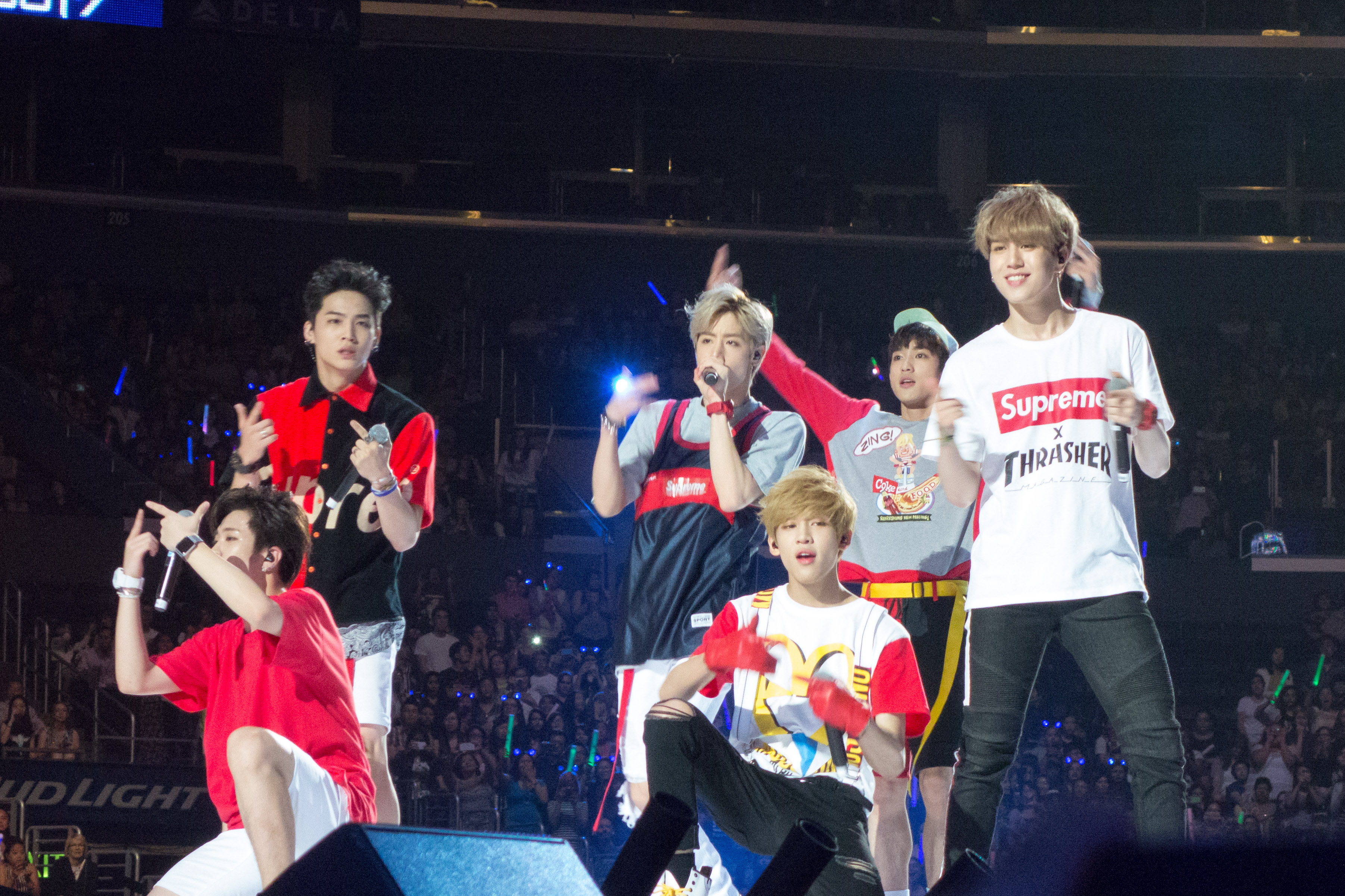 KCON 2015 Got7 on stage.